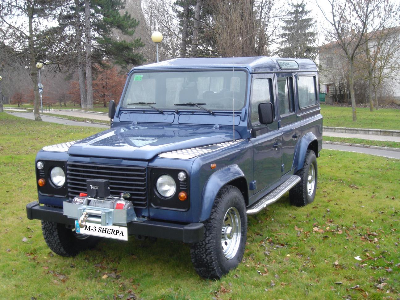 Land Rover Defender Cairns Blue